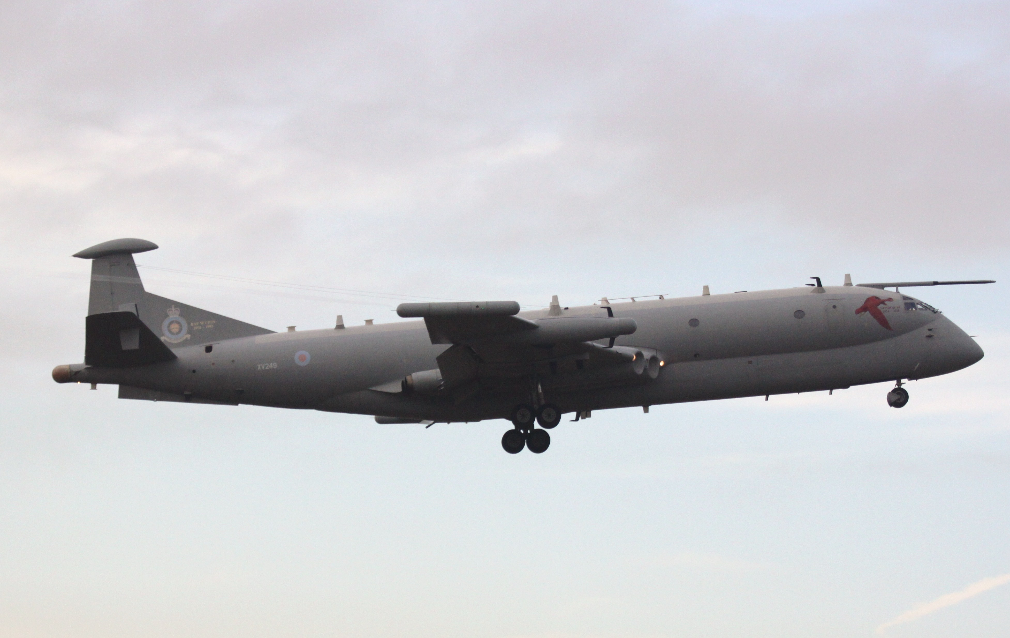 There are only two of these left and along with it seems everything else in the RAF they'll be retired too. This one is wearing special markings as can be seen. If it has to go back to warmer climes thenit will have these removed.